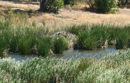 Beaver lodge on Southhampton Creek, Benicia State Recreation Area